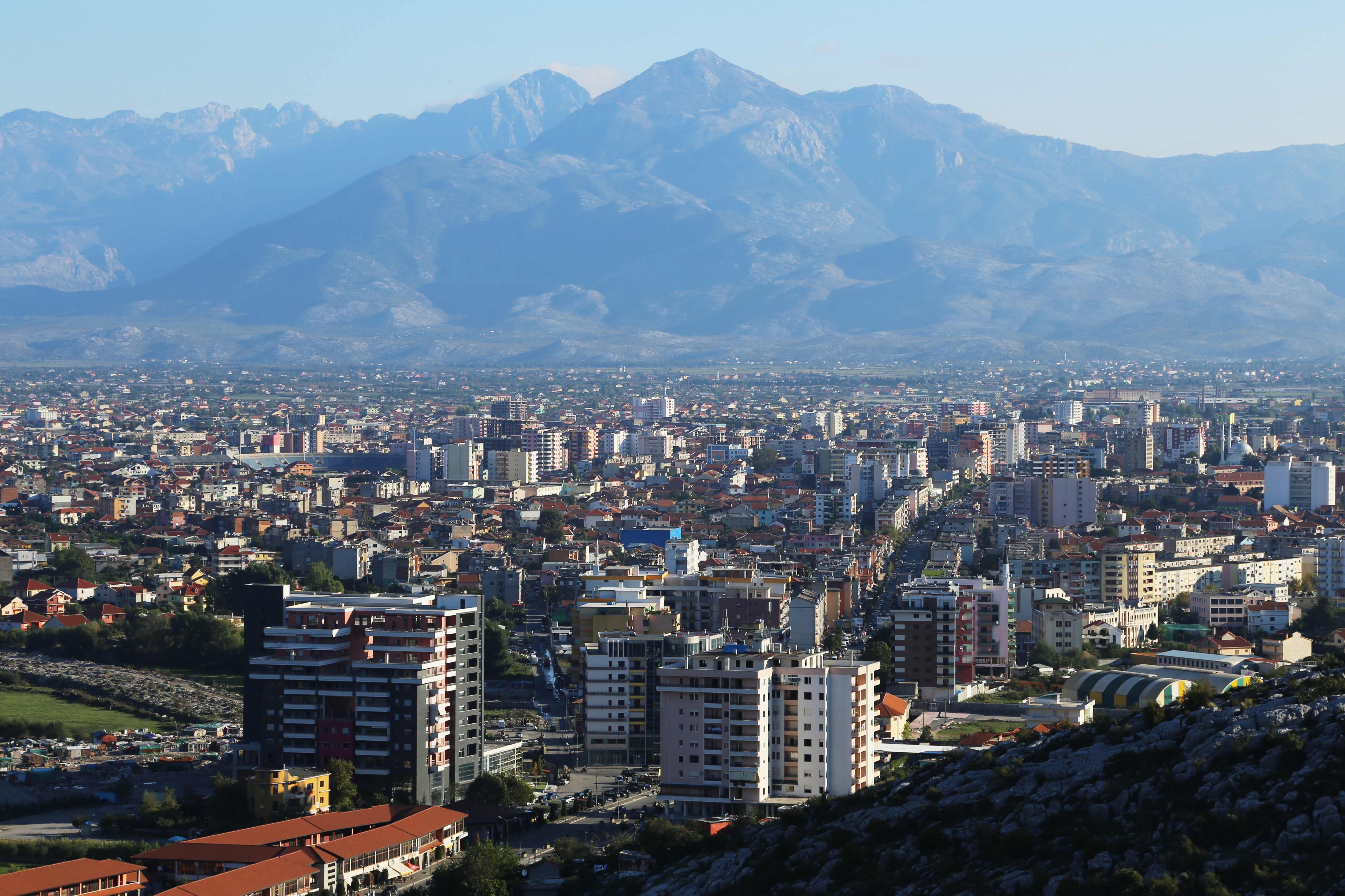 View from Rozafa Castle in Albania